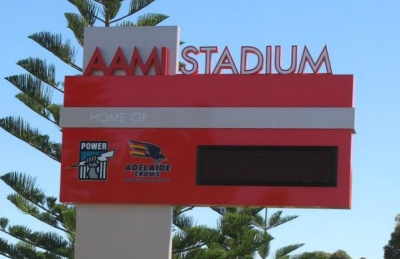 AAMI Stadium sign, Football Park, Adelaide.